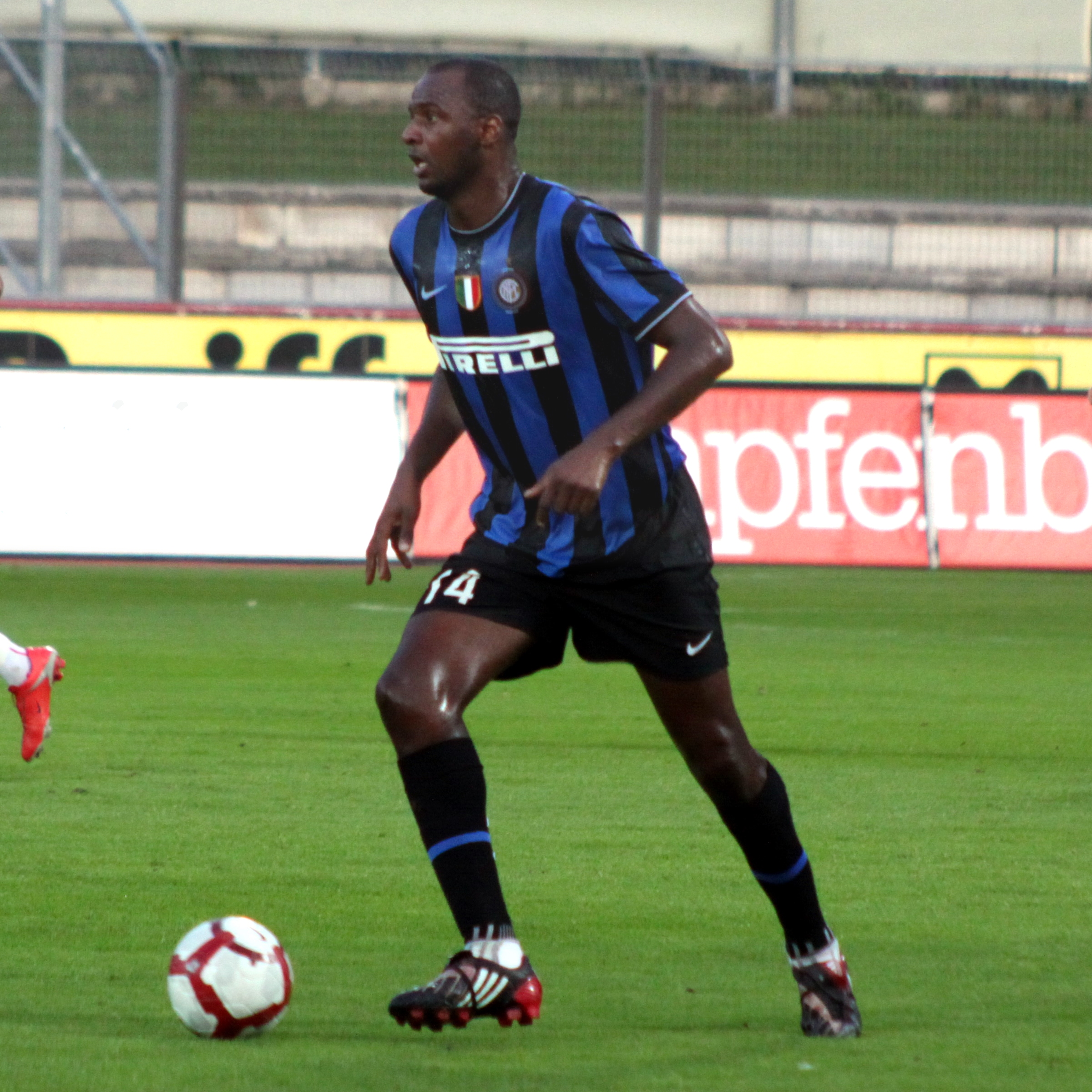 Patrick Vieira - F.C. Internazionale Milano